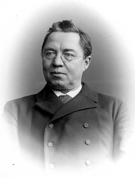 Dr. Franz Xaver Schädler as a member of parlament